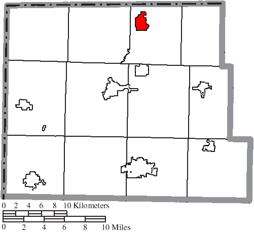 Map of the municipal and township boundaries of Williams County, Ohio, United States, as of the 2000 census, with the location of the village of Pioneer highlighted. Township borders are shown only in unincorporated areas in order to differentiate incorporated and unincorporated areas more clearly.